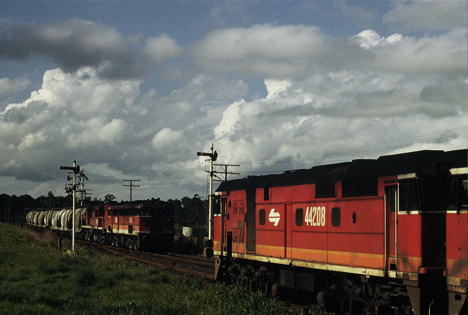 NSWR loco 44208 crossing a 44 & 45 class hauled southbound goods train on the Brisbane-Casino line, 1987